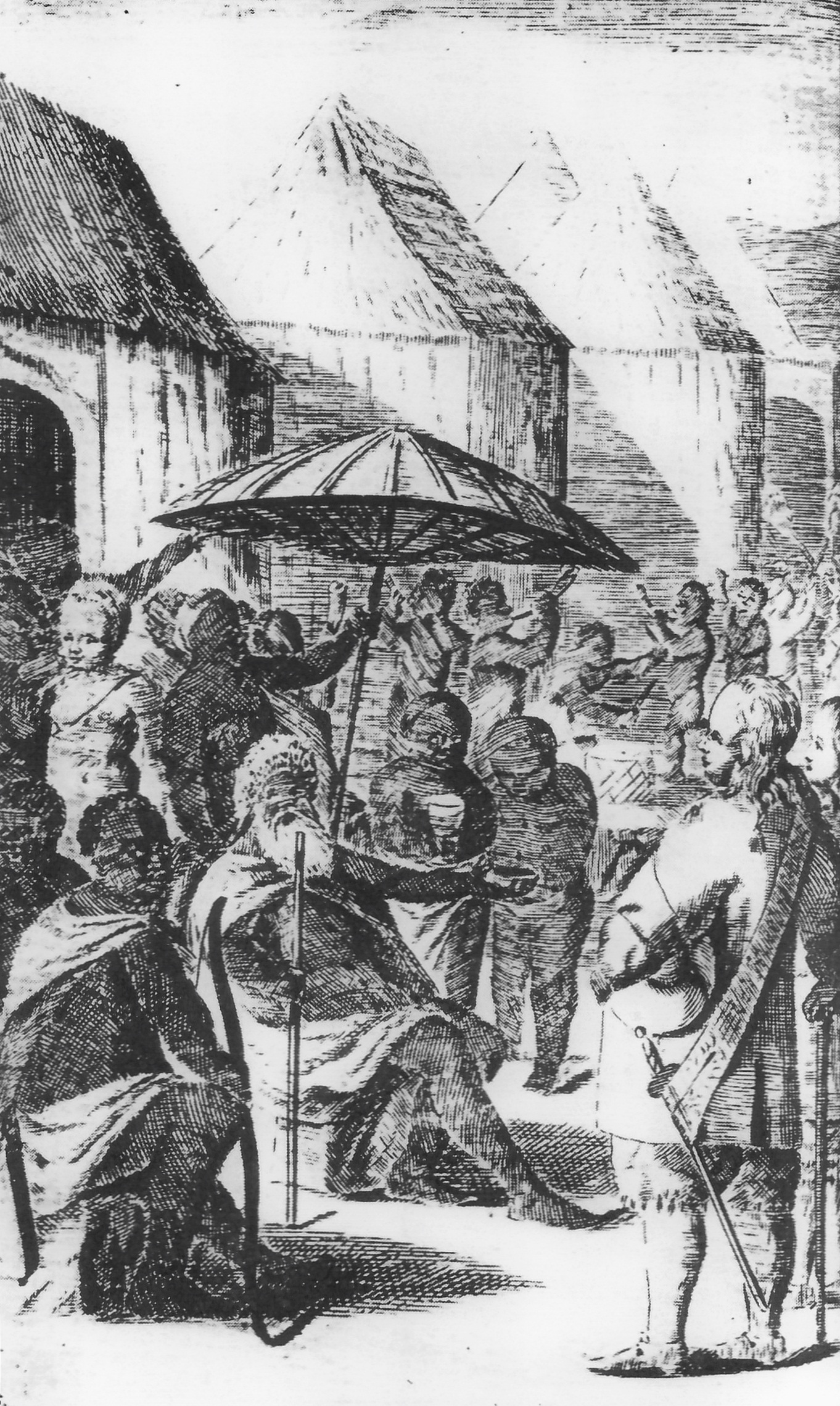 The palaver between Bredewa, the King of Fetu, and the Swedish commissioner Neumann in or near Degou (the contemporary Cape Coast in Ghana) in 1648. The Swedish are invited by the king to erect a "stony house" for the purpose of trade. A suitable contract was closed following that on whose basis one year later with the construction of the Fort Carolusburg (Karlsborg, the later Cape Coast Castle) was begun. original: xylography or copper engraving or copper etching (?)